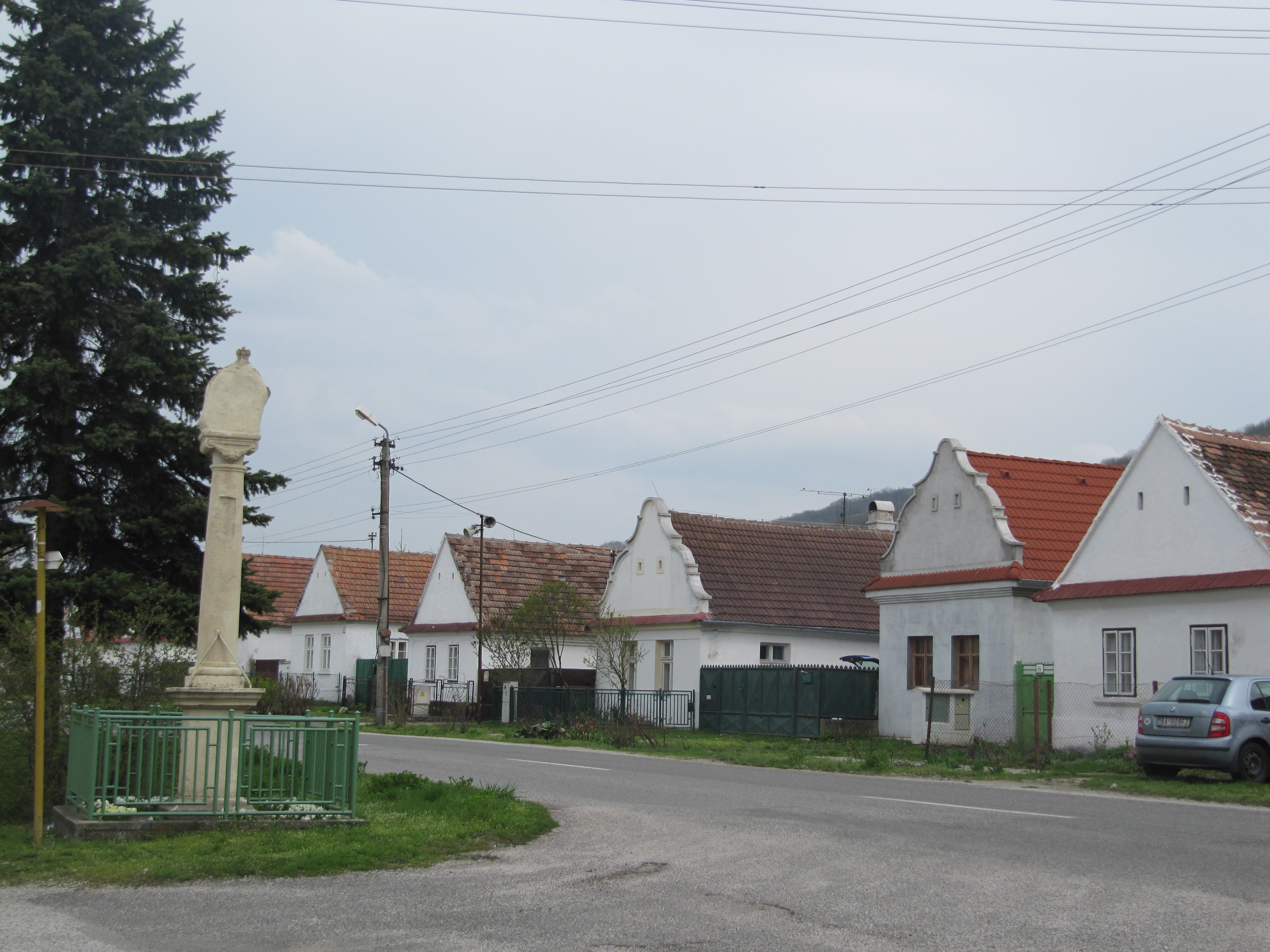 Plavecký Peter in Senica District, Slovakia. Common, listed houses.